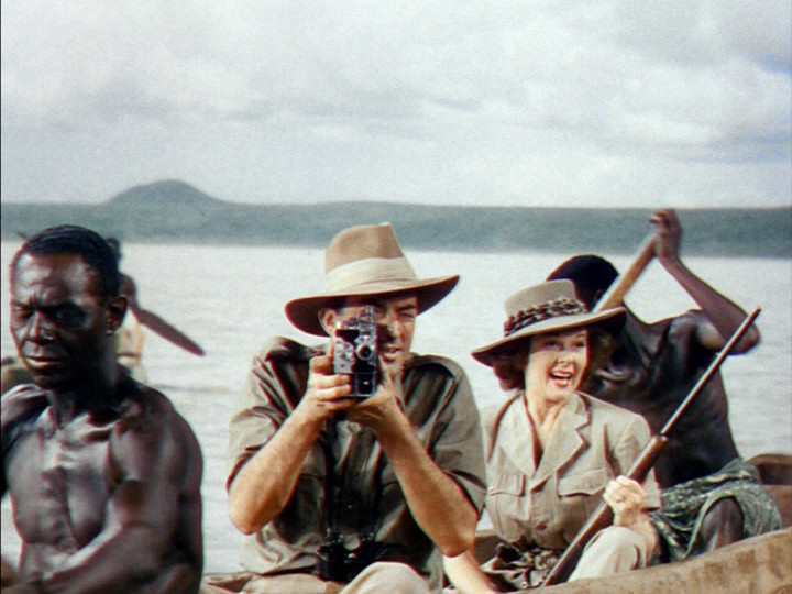 Screenshot of Susan Hayward and Gregory Peck from the film The Snows of Kilimanjaro